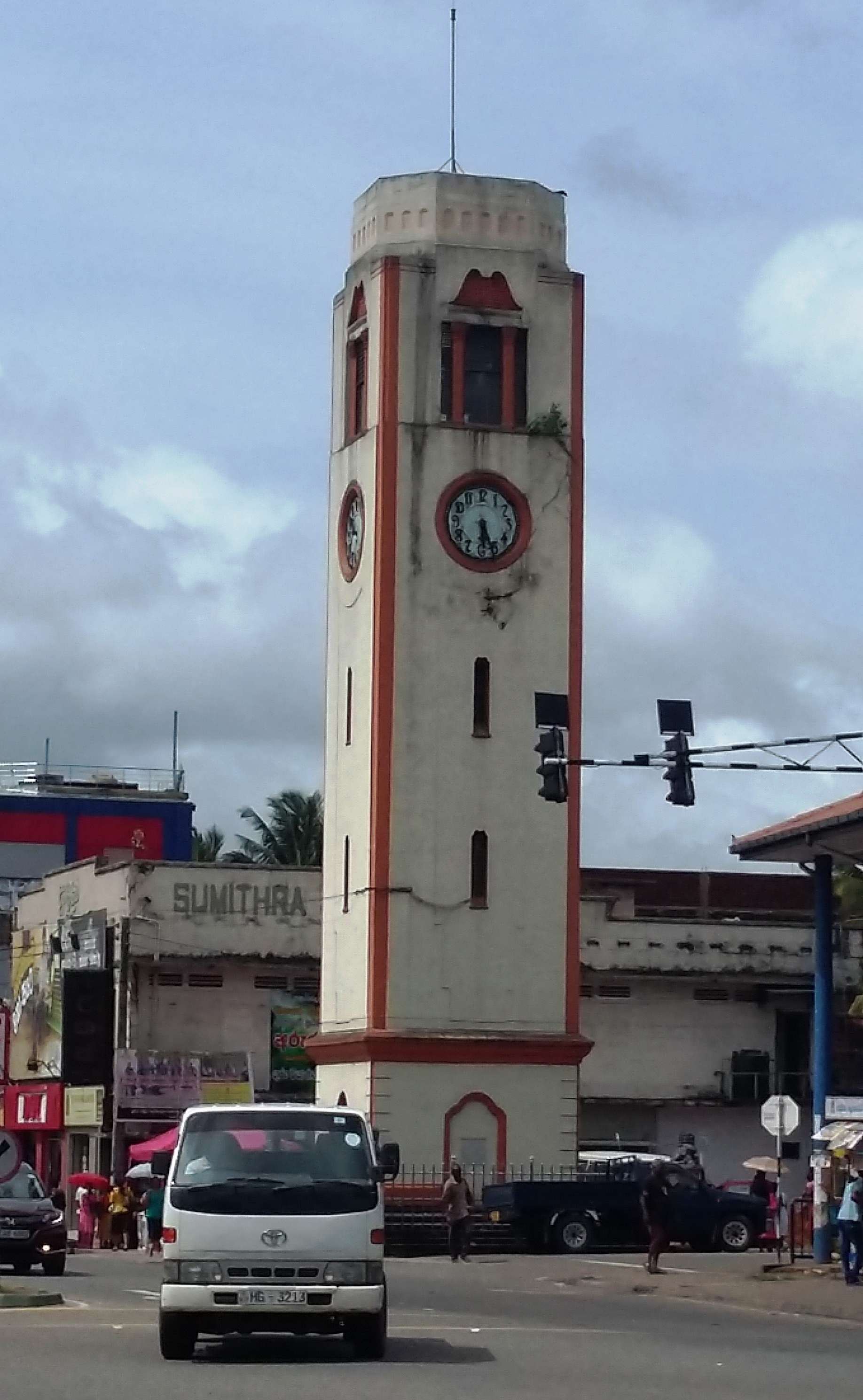 Photo of Piliyandala Clock Tower (2015 June 20)